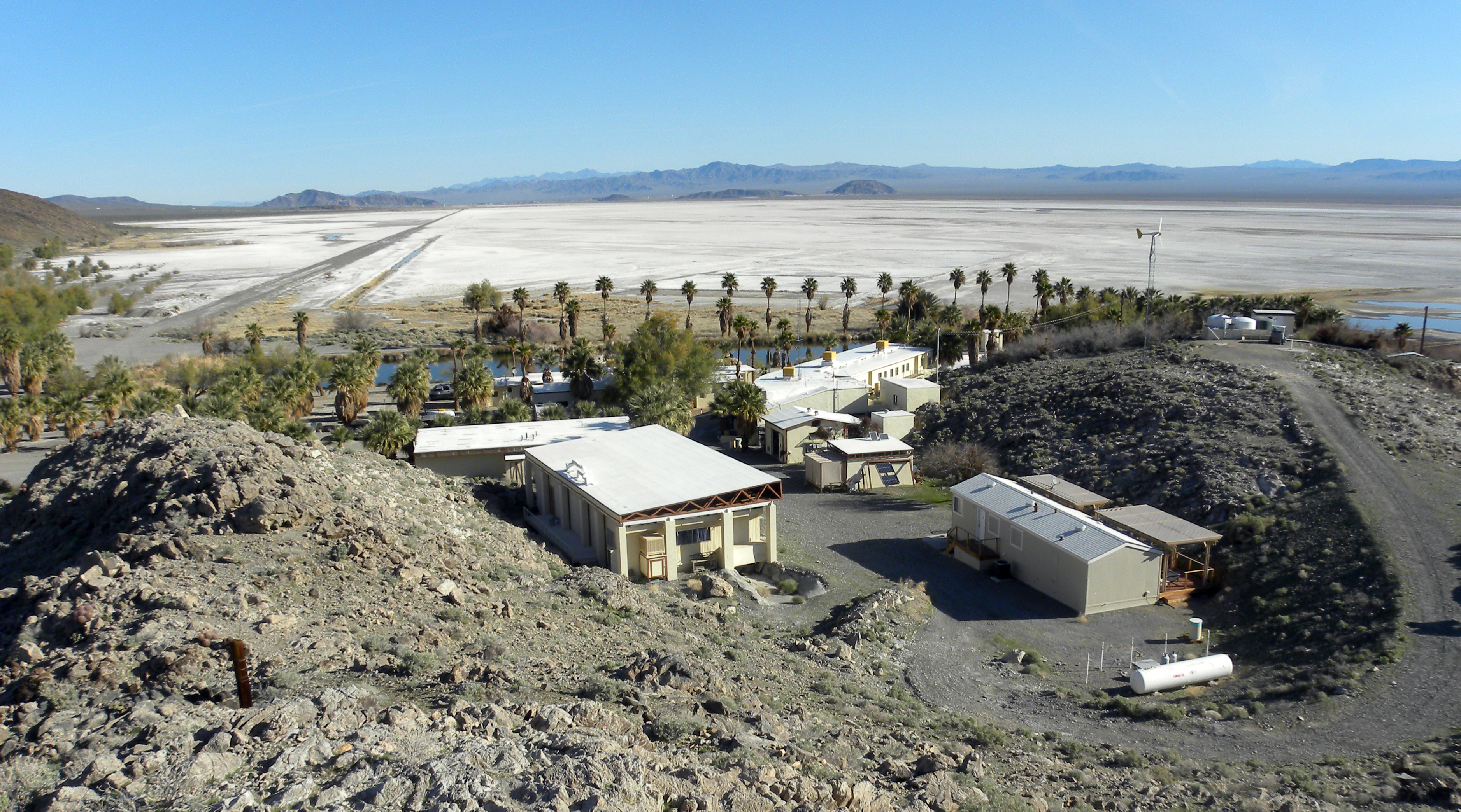 Desert Studies Center at Zzyzx, California, in March 2010.